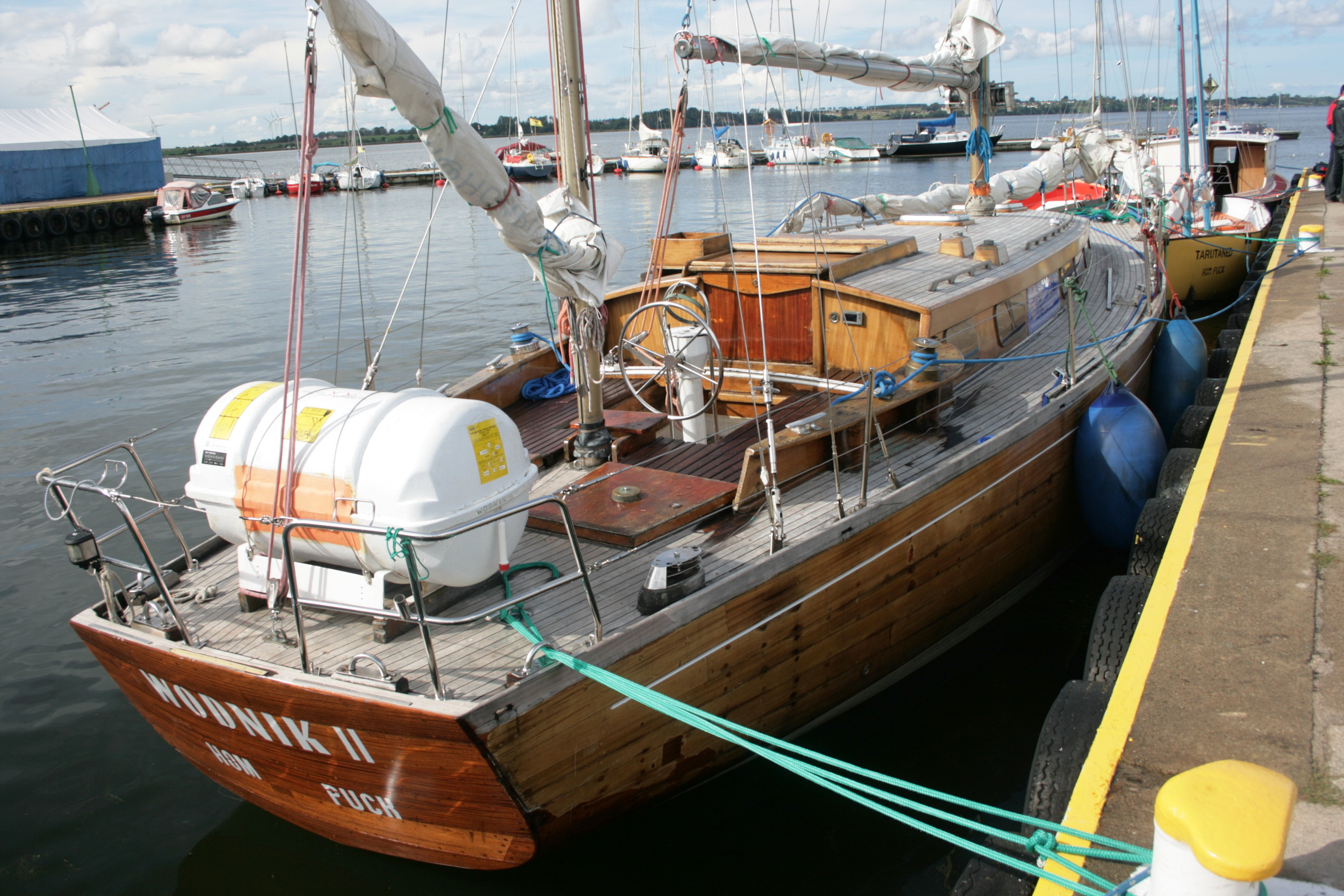 SY Wodnik II in Puck